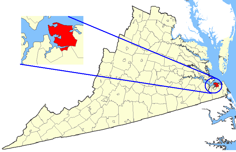 Maps of counties in Virginia, showing City of Norfolk highlighted.